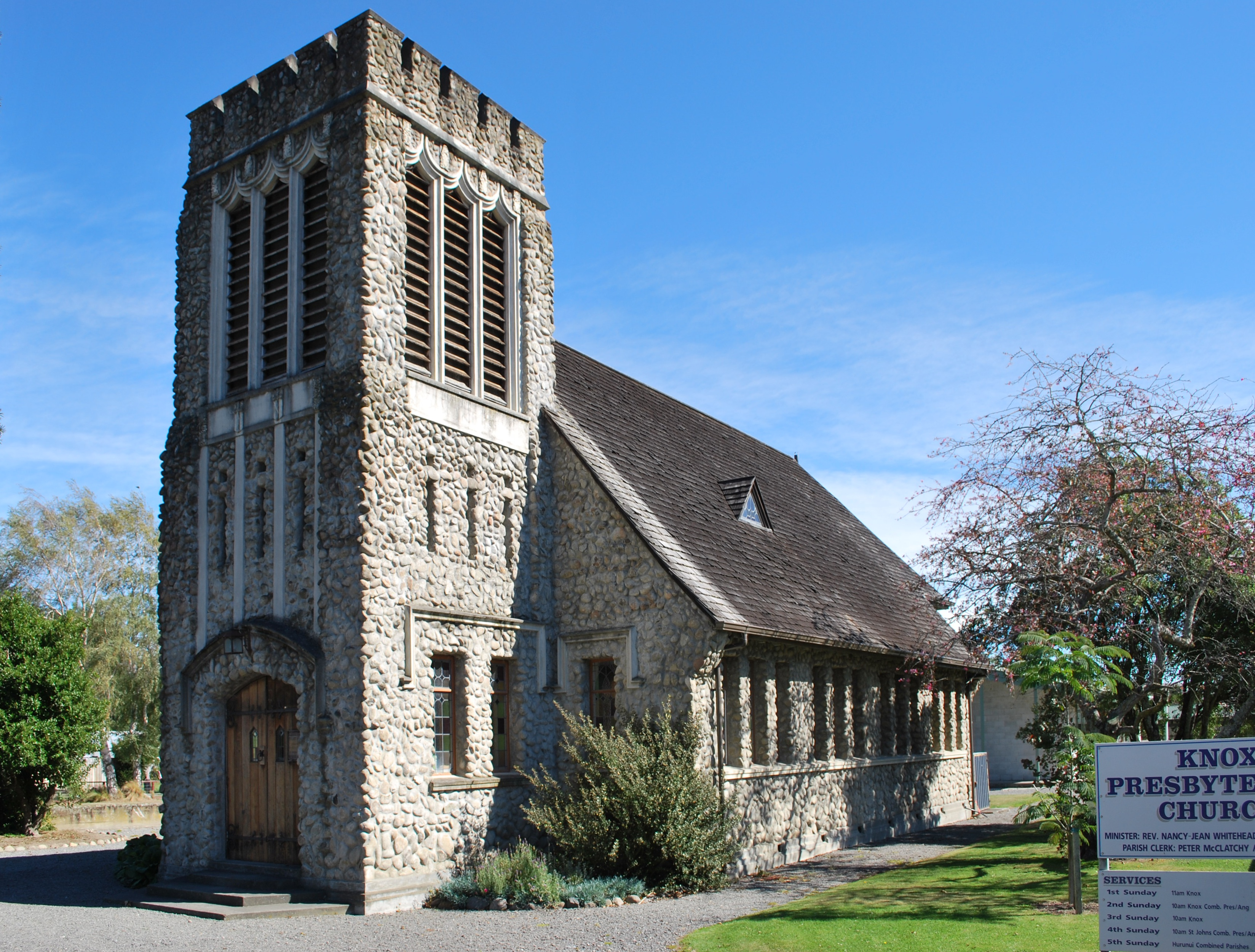 Knox Presbyterian church at Cheviot, New Zealand